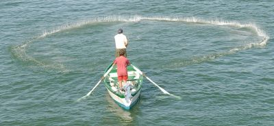 fishing with cast net ("rezzaglio" in italy)